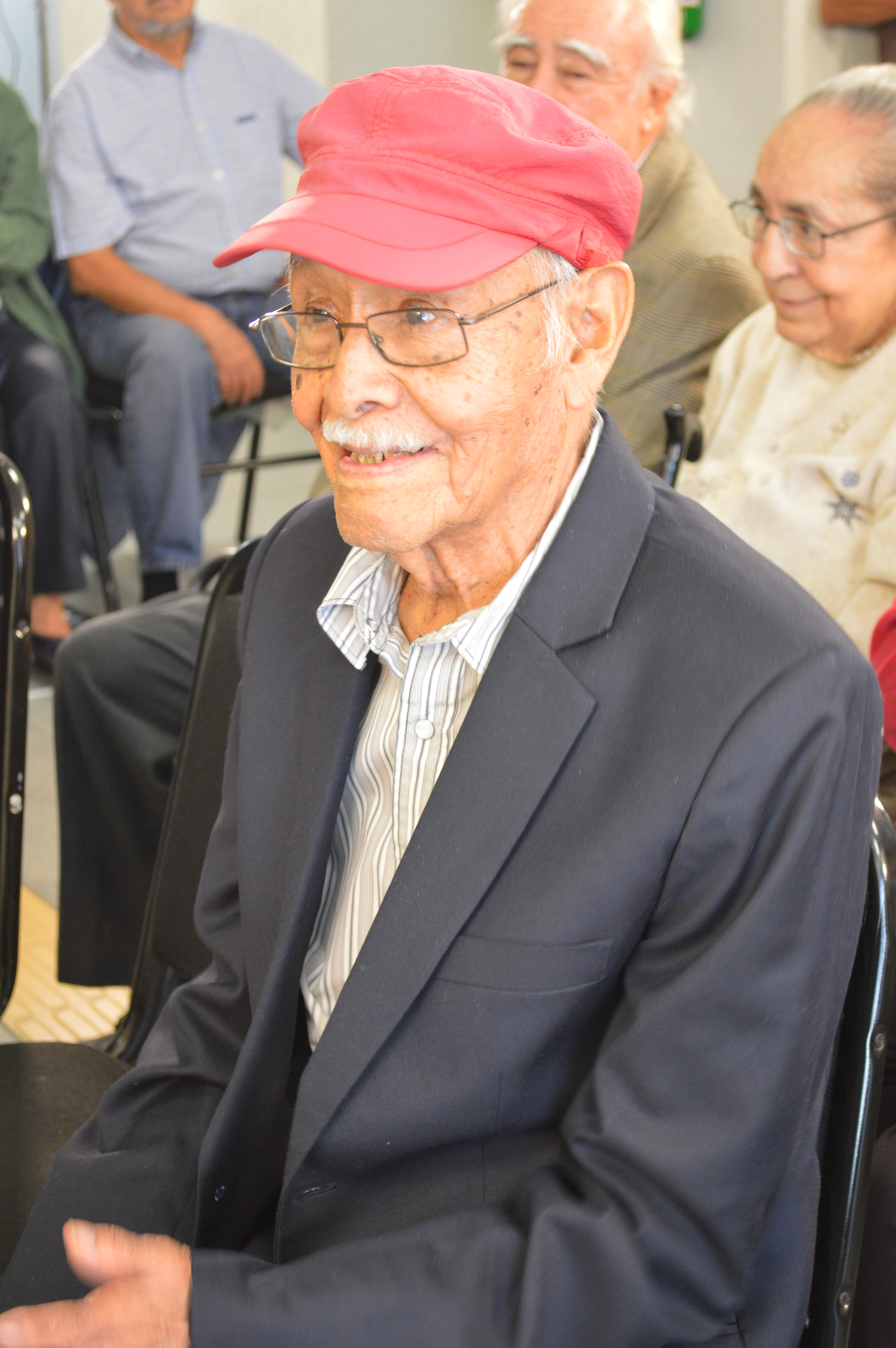 Artist Jorge Tovar at an exhibition of his work at the studios of Televisión Educativa in Mexico City